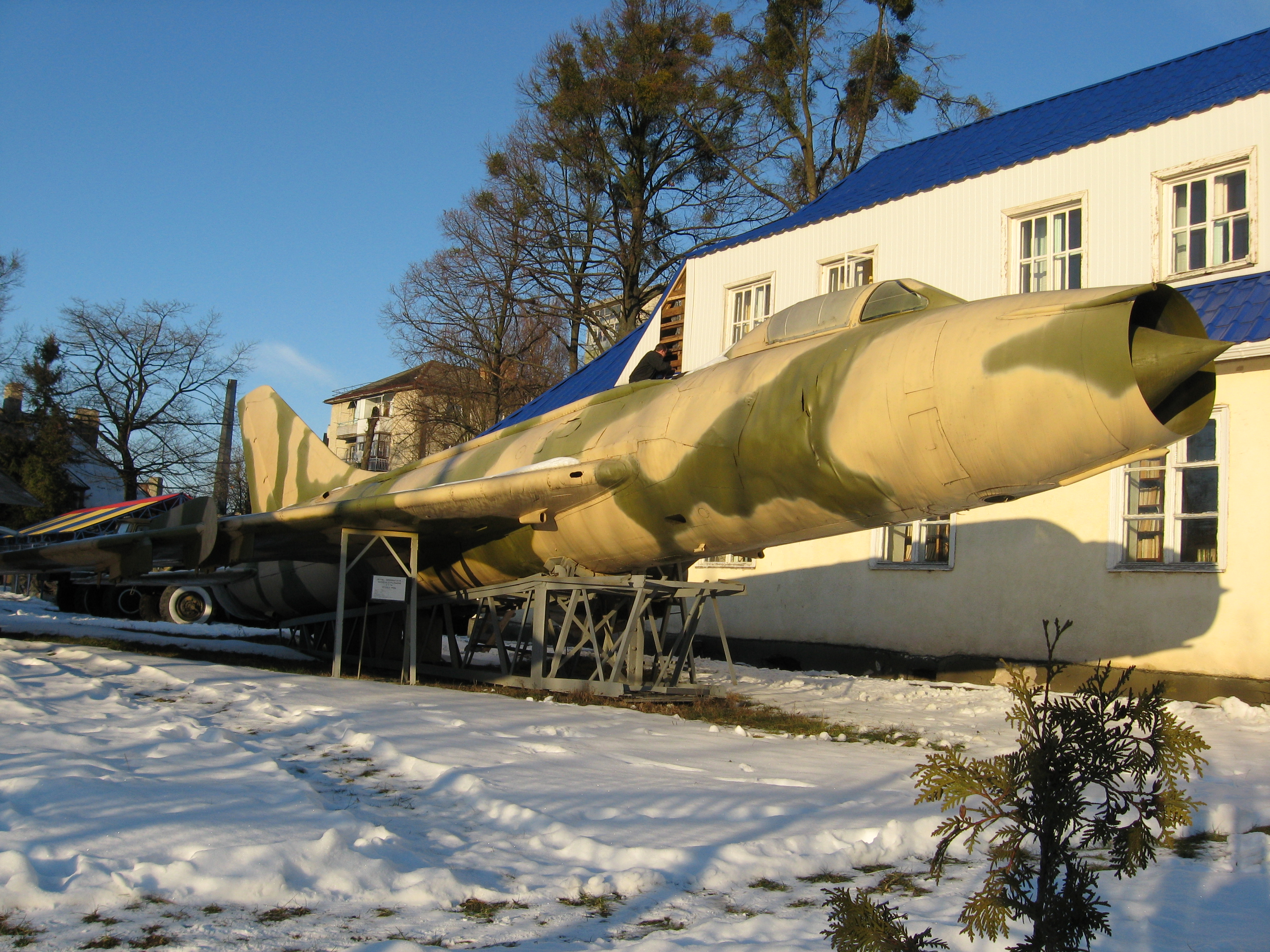 Sukhoi Su-7 aircraft in Lutsk.